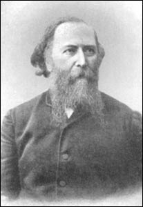 Nikolay Vasilievich Vereschagin